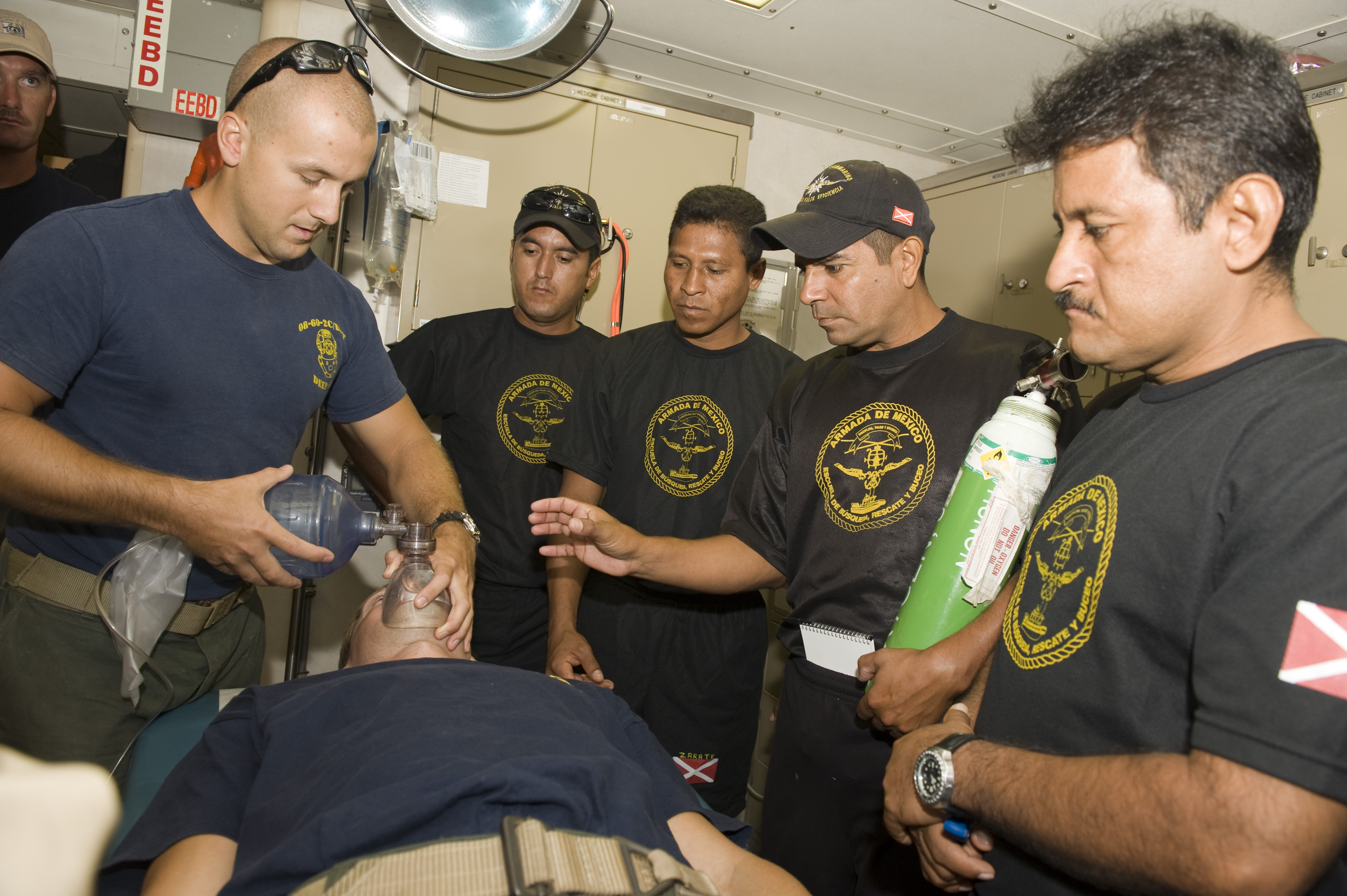 VERACRUZ, Mexico (July 5, 2010) Navy Diver 2nd Class Jason Hatch assigned to Company 2-6 of Mobile Diving and Salvage Unit (MDSU) 2, demonstrates the correct way to administer oxygen during a joint training mission with Mexican navy divers aboard the Military Sealift Command rescue and salvage ship USNS Grasp (T-ARS 51). MDSU-2 is participating in navy diver exercises as part of Southern Partnership Station, a multinational partnership engagement designed to increase interoperability and partner nation capacity through diving operations. (U.S. Navy photo by Mass Communication Specialist 2nd Class Chris Lussier/Released)